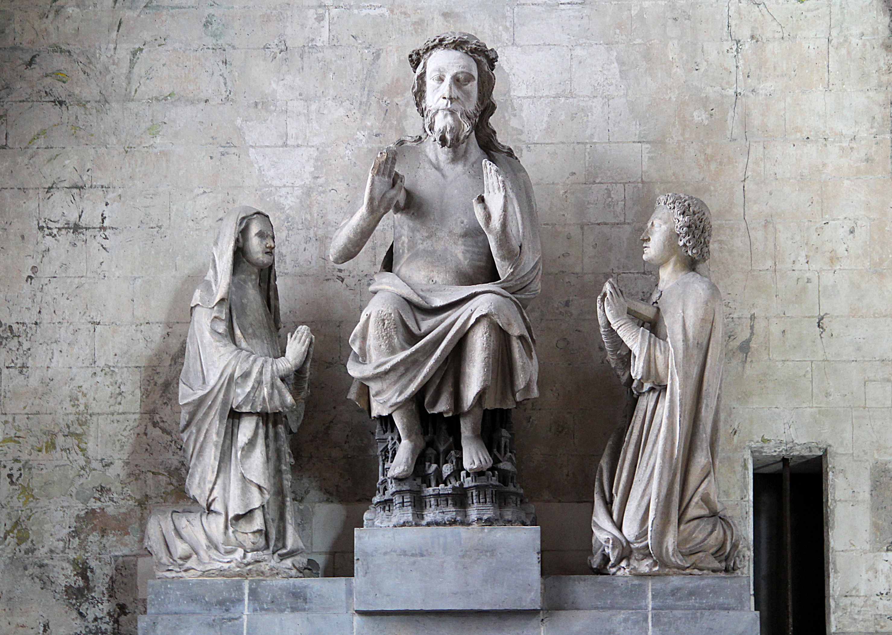 Saint-Omer (Pas-de-Calais - France), sculpted group called "Le Grand Dieu de Thérouanne" (XIIIth century) from the Cathedral Therouanne (destroyed in 1553) and placed in the Notre-Dame de Saint-Omer cathedral.